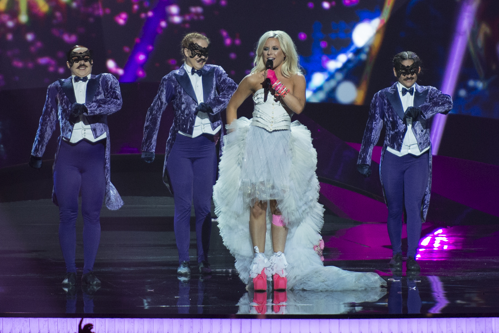 Krista Siegfrids representing Finland with the song "Marry Me" during the second dress rehearsal of the second semi final of the Eurovision Song Contest 2013 in Malmö. (Help translate this text)